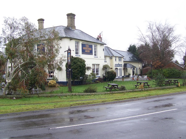 The Mortimer Arms, Ower The pub stands near the entrance to Paultons Park.